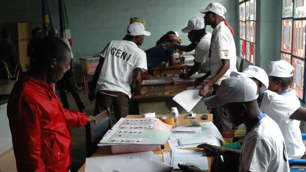 Election officials count votes on election day (legislative elections) in Bujumbura, Burundi, June 29, 2015. (Photo: Edward Rwema/VOA)